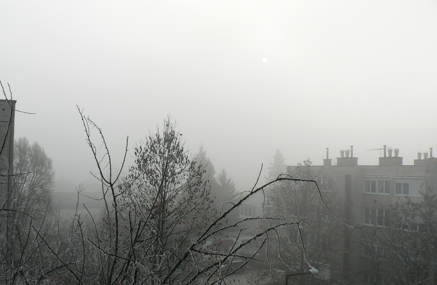 A "világvége" reggelén is feljött a nap (2012. december 21.)